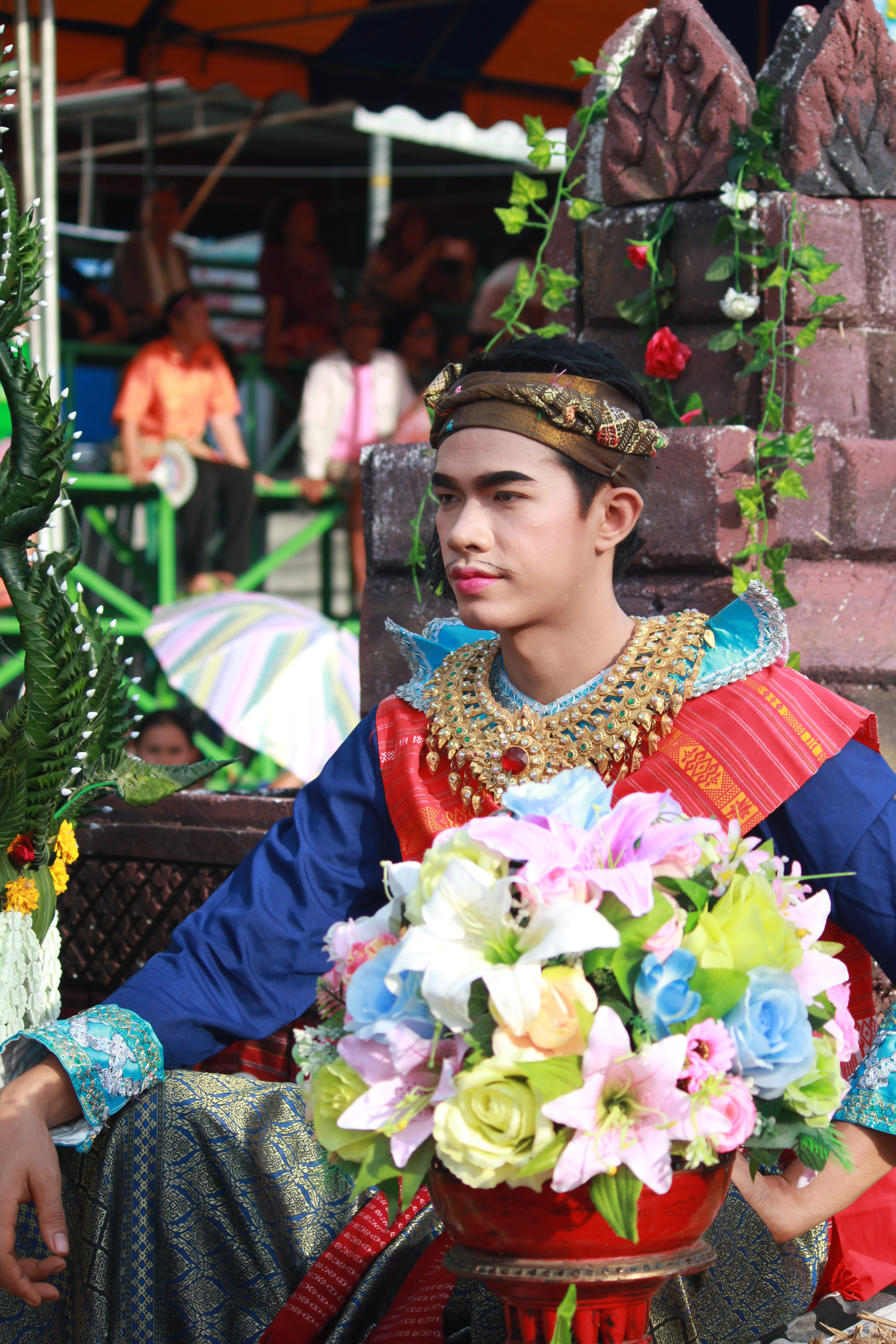 Phaya Thaen the main god if isan who related with Bung Fai Festival